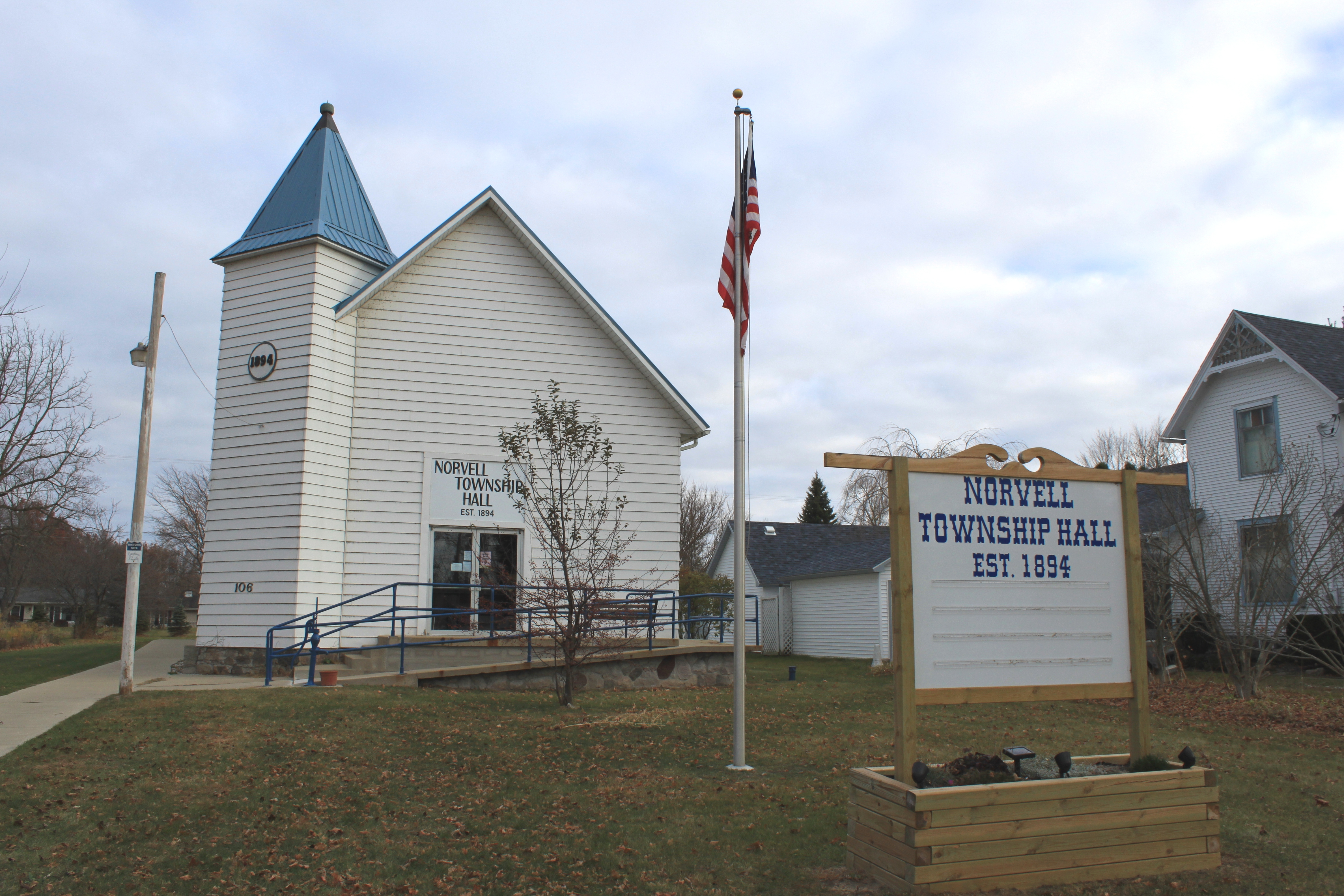 Norvell Township Hall, 106 East Commercial Street, Norvell Township Michigan